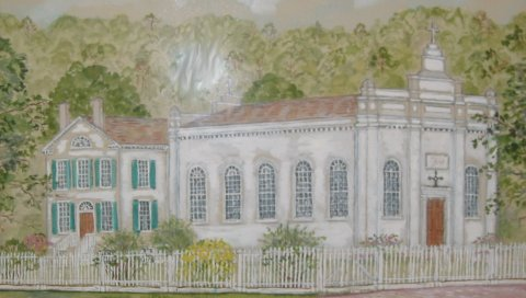 The first St. Raphael's Church. The building holding the Bishop's residence and what today is Loras College is at the rear. This is a painting in the parish rectory.